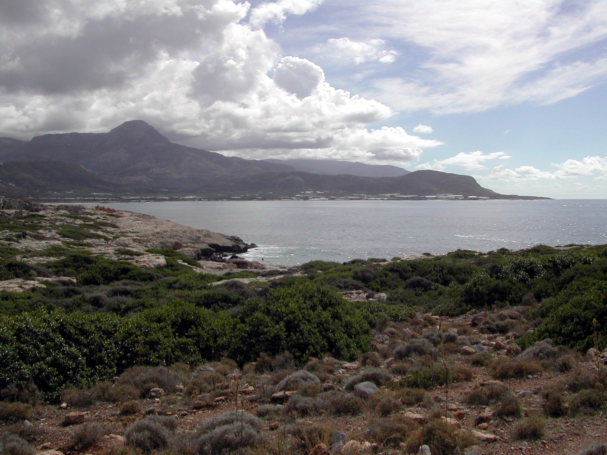 View on the bay of Falasarna Crete